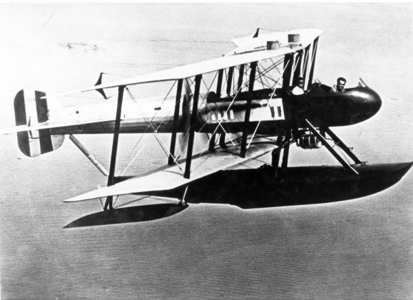 PictionID:40957209 - Catalog:Array - Title:Array - Filename:16_000307 Gallaudet D-4 2654 via USN.tif - Ray Wagner was Archivist at the San Diego Air and Space Museum for several years and is an author of several books on aviation --- ---Please Tag these images so that the information can be permanently stored with the digital file.---Repository: San Diego Air and Space Museum